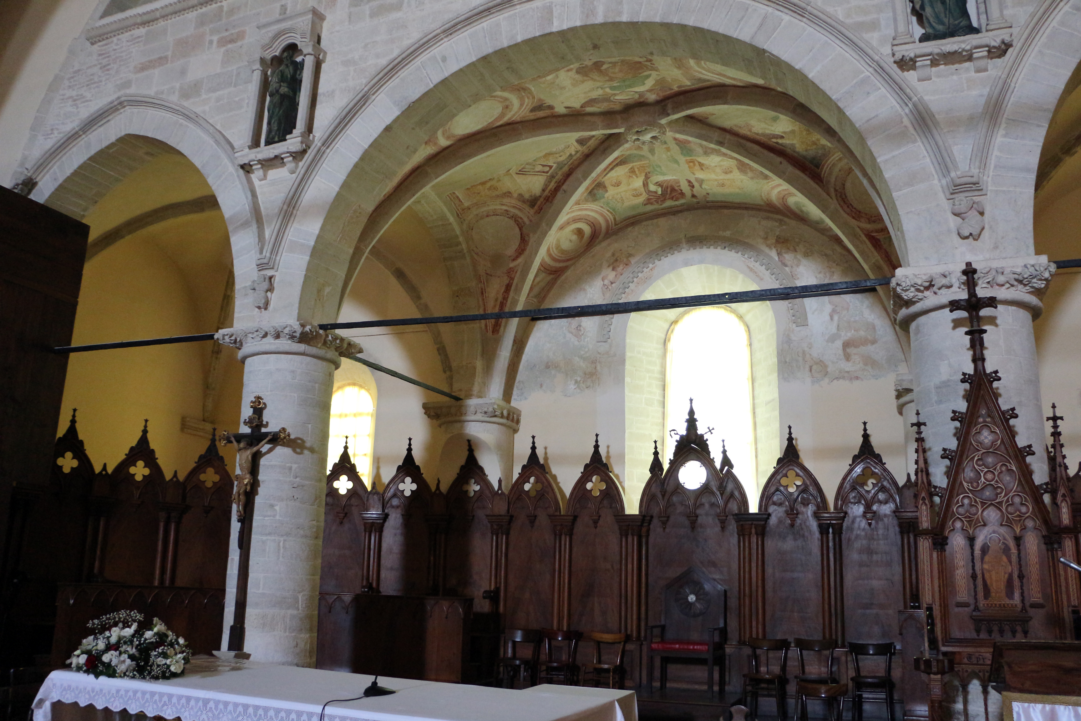 Sant'Esuperanzio (Cingoli)